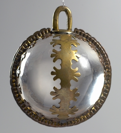 This charm or amulet, originally owned by the Butler family of Garnavilla, near Cahir, Co. Tipperary, was traditionally invoked to protect cattle from disease. Family and neighbours dipped it in drinking water or hung it from the neck of a cow. The crystal ball, which weighs 200g, is mounted in a gilded copper or bronze frame with trefoil decoration and a hanging loop. ?Irish.